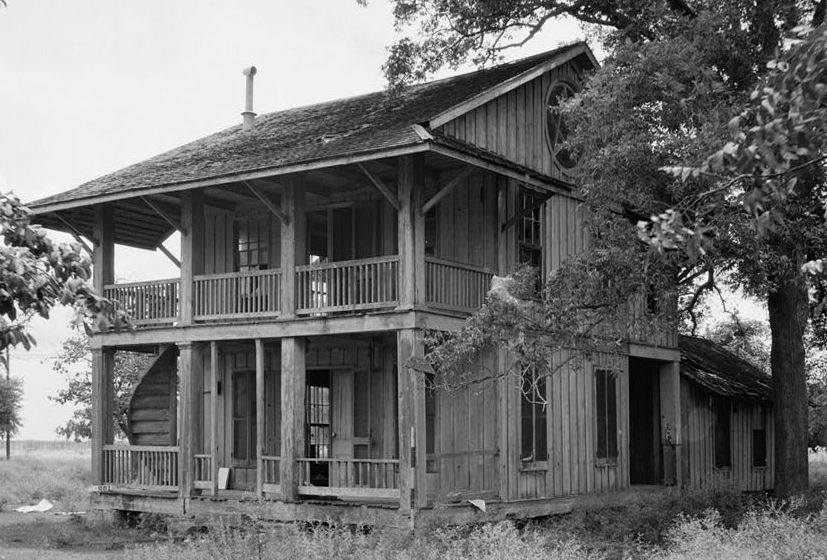 General Thomas Jefferson Chambers House, Anahuac, Texas. Known also as Chambersea. Listed on the National Register of Historic Places. HABS image.